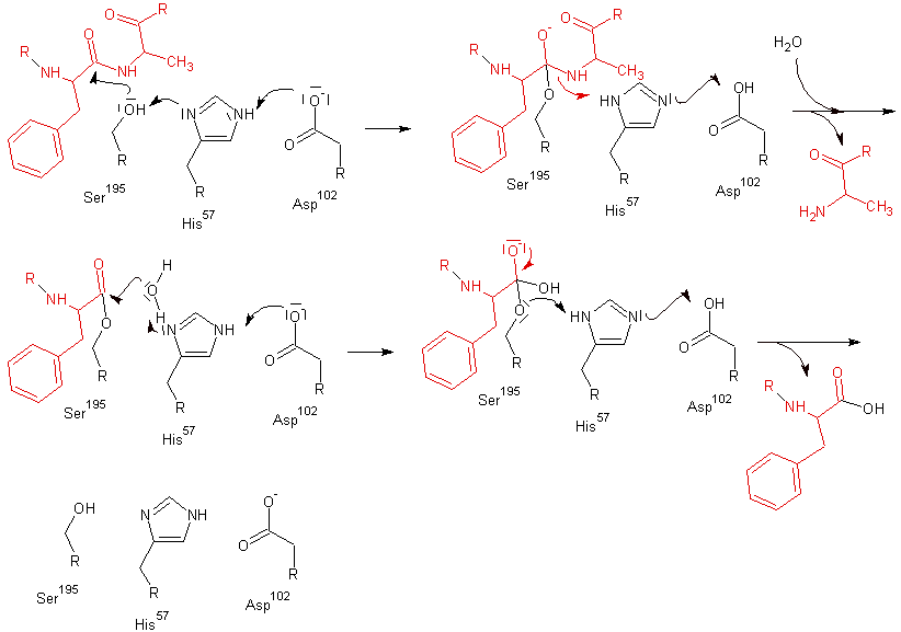 reaction mechanism of peptide bond cleavage by α-chymotrypsin